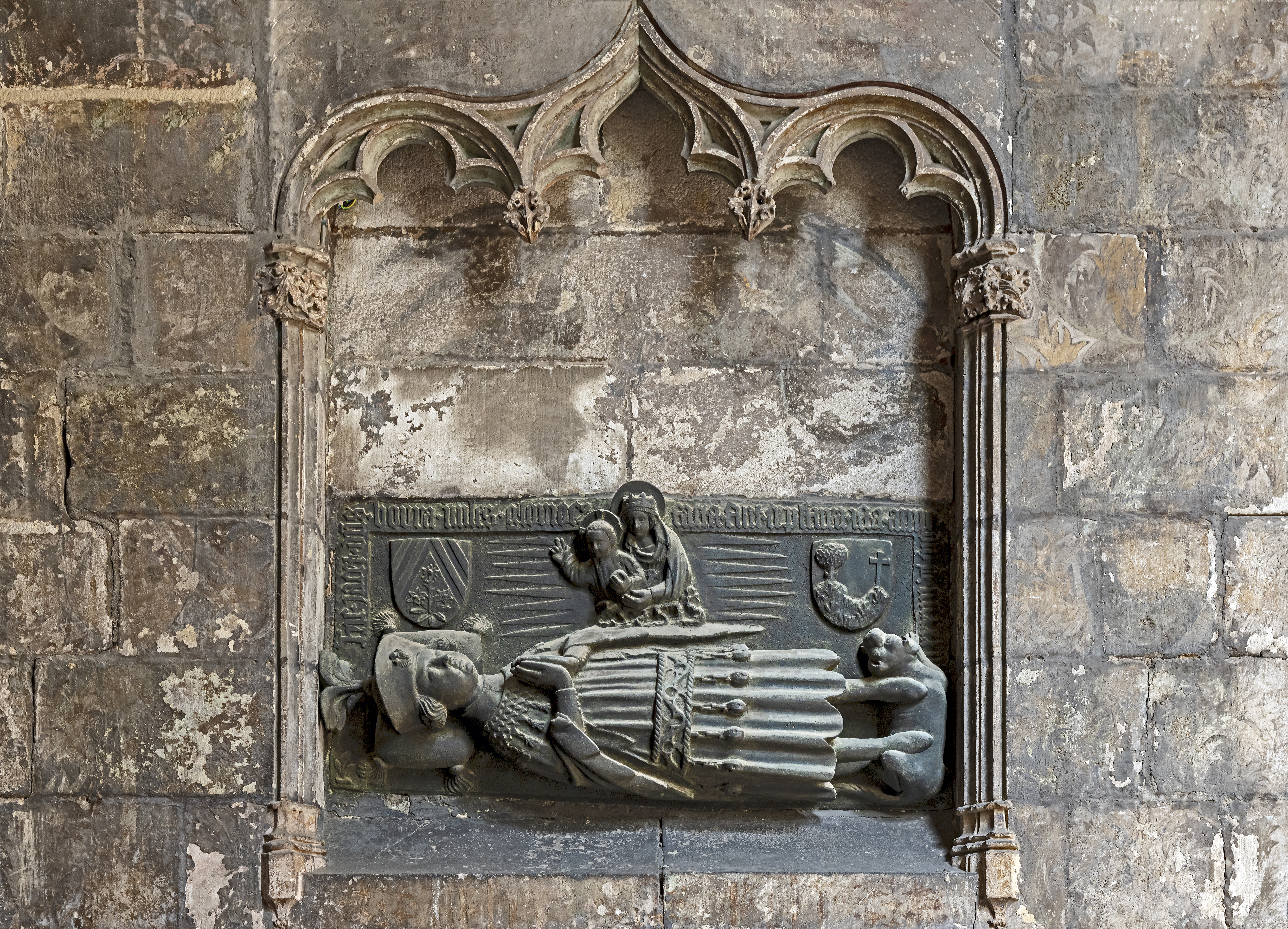 The Cathedral of the Holy Cross and Saint Eulalia in Barcelona. Bronze statue of Antoni Tallander (Mossen Borra), in the cloister of Barcelona Cathedral. The Latin inscription identifies him by his nickname and describes him as a glorious military. According to the models of the same period, the bells that hang from the belt have been identified rather as a distinctive sign of cavalry than of his role of jester.